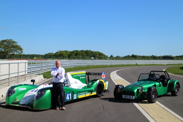 Caterham Le Mans project, run by Mike Gascoyne, picture taken during shakedown in UK